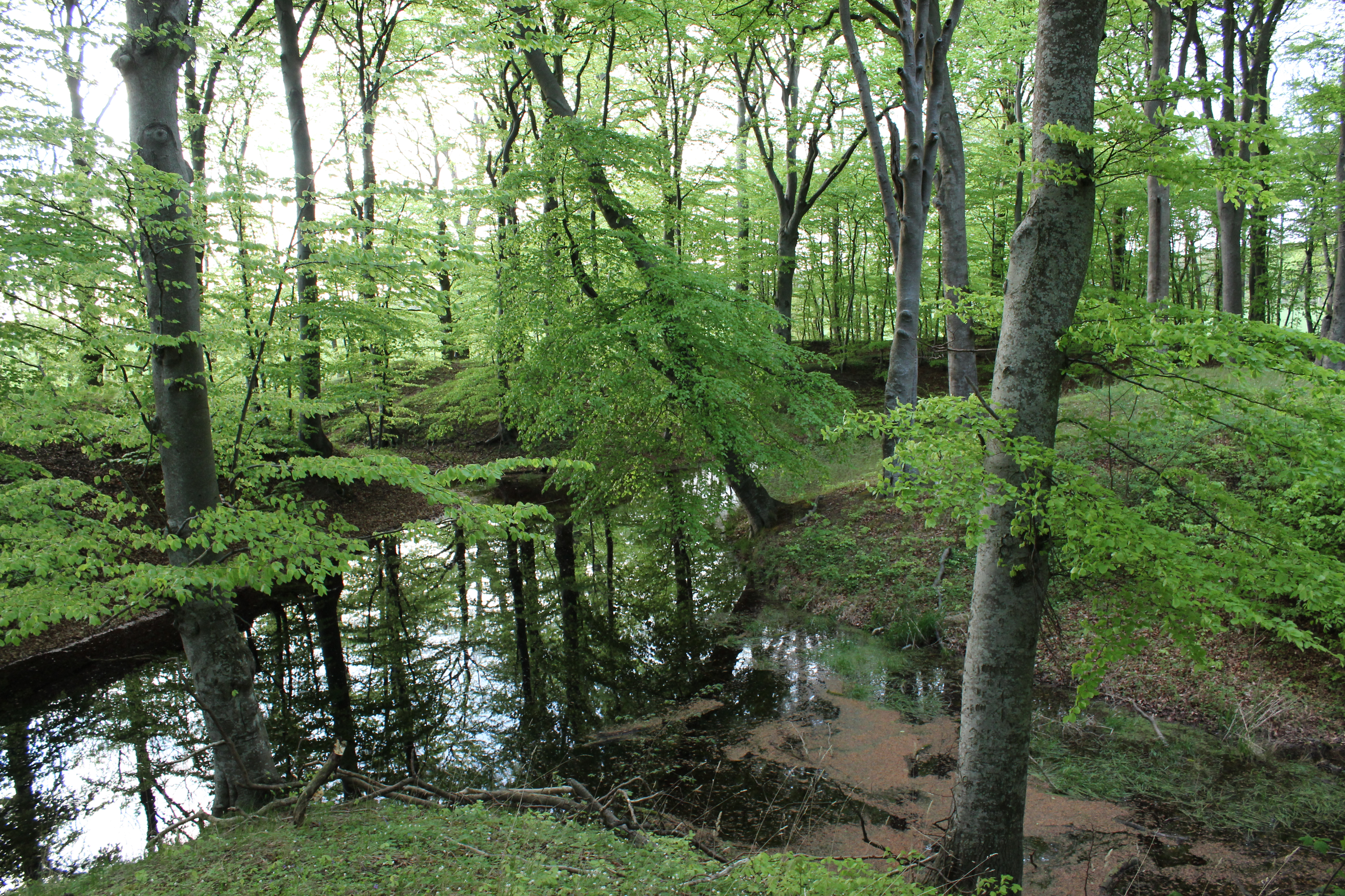 Looking north from sourthern embankment.